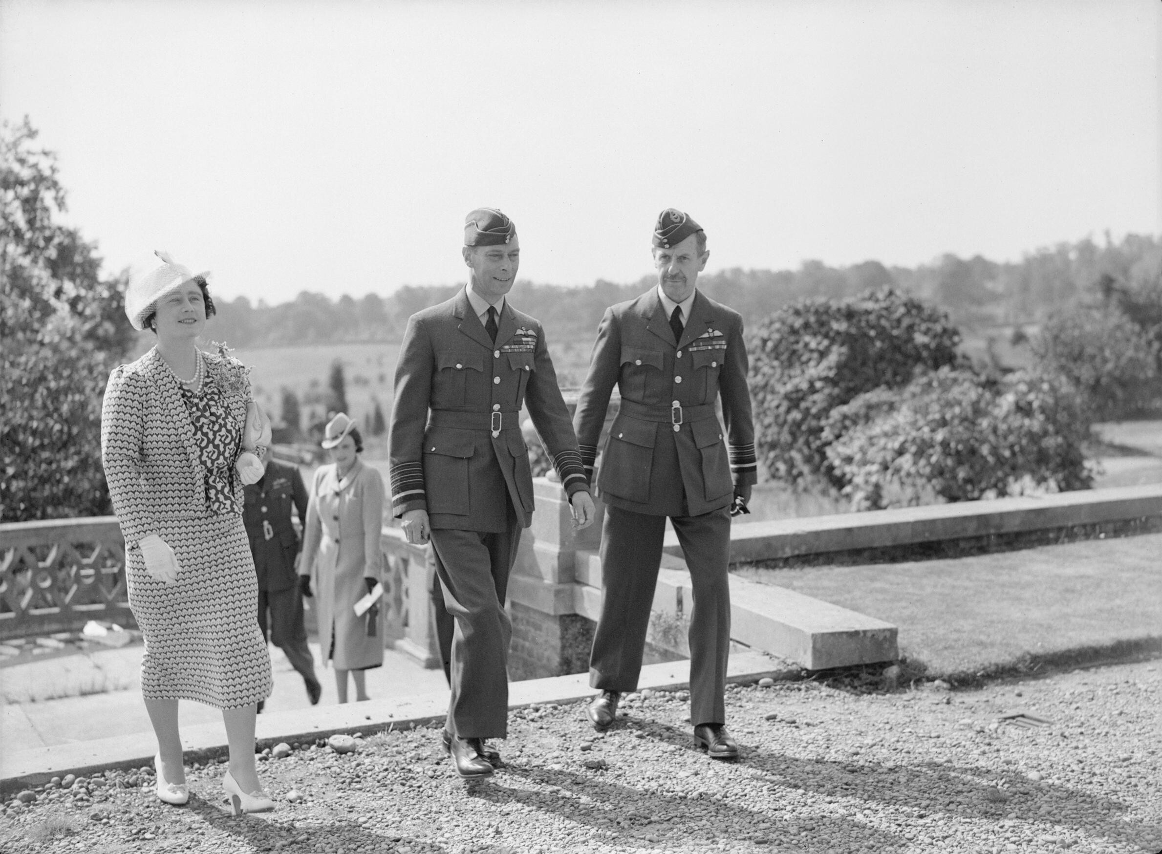 Royal Air Force Fighter Command, 1939-1945. King George VI and Queen Elizabeth, escorted by Air Chief Marshal Sir Hugh Dowding, Air Officer Commander-in-Chief of Fighter Command, visit the Headquarters of Fighter Command at Bentley Priory, near Stanmore, Middlesex..